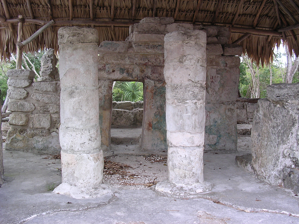 Red hand prints still visible on the structure within the ruins of San Gervasio